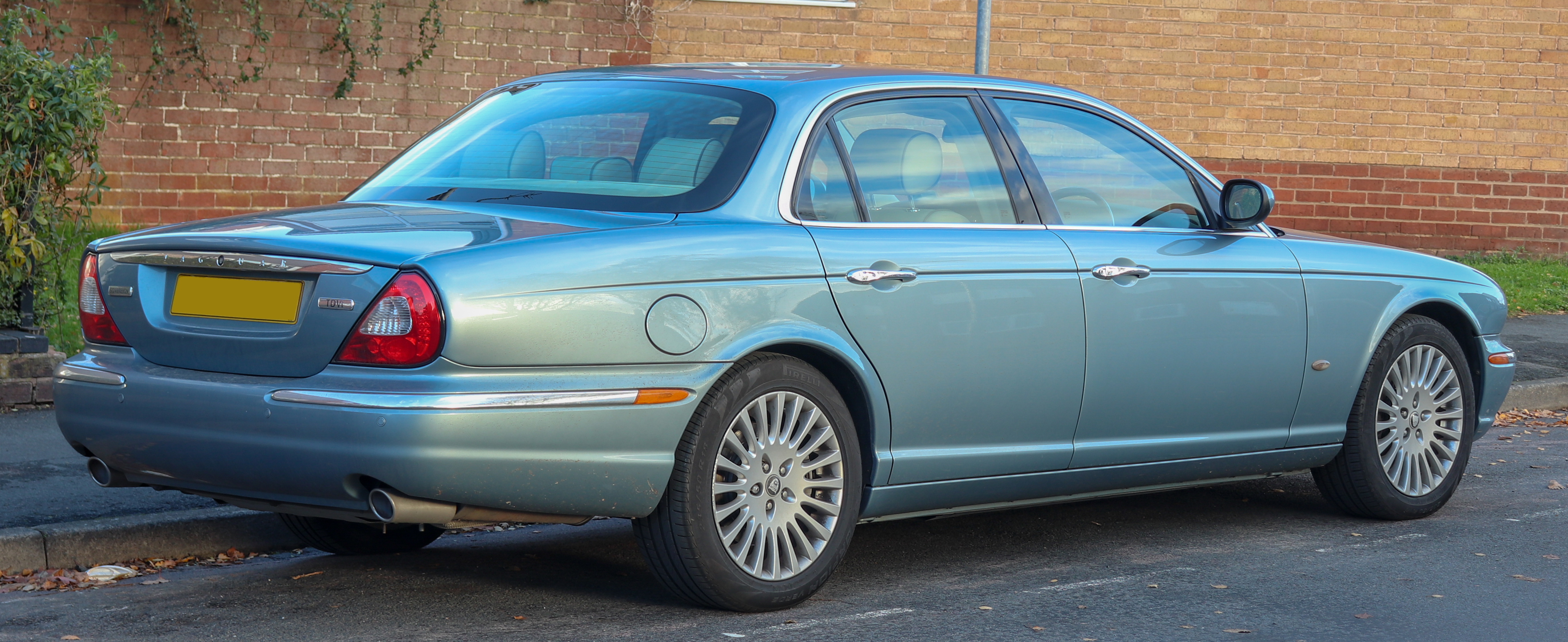 2006 Jaguar XJ Sovereign TDVi Automatic 2.8 Rear Taken in Warwick